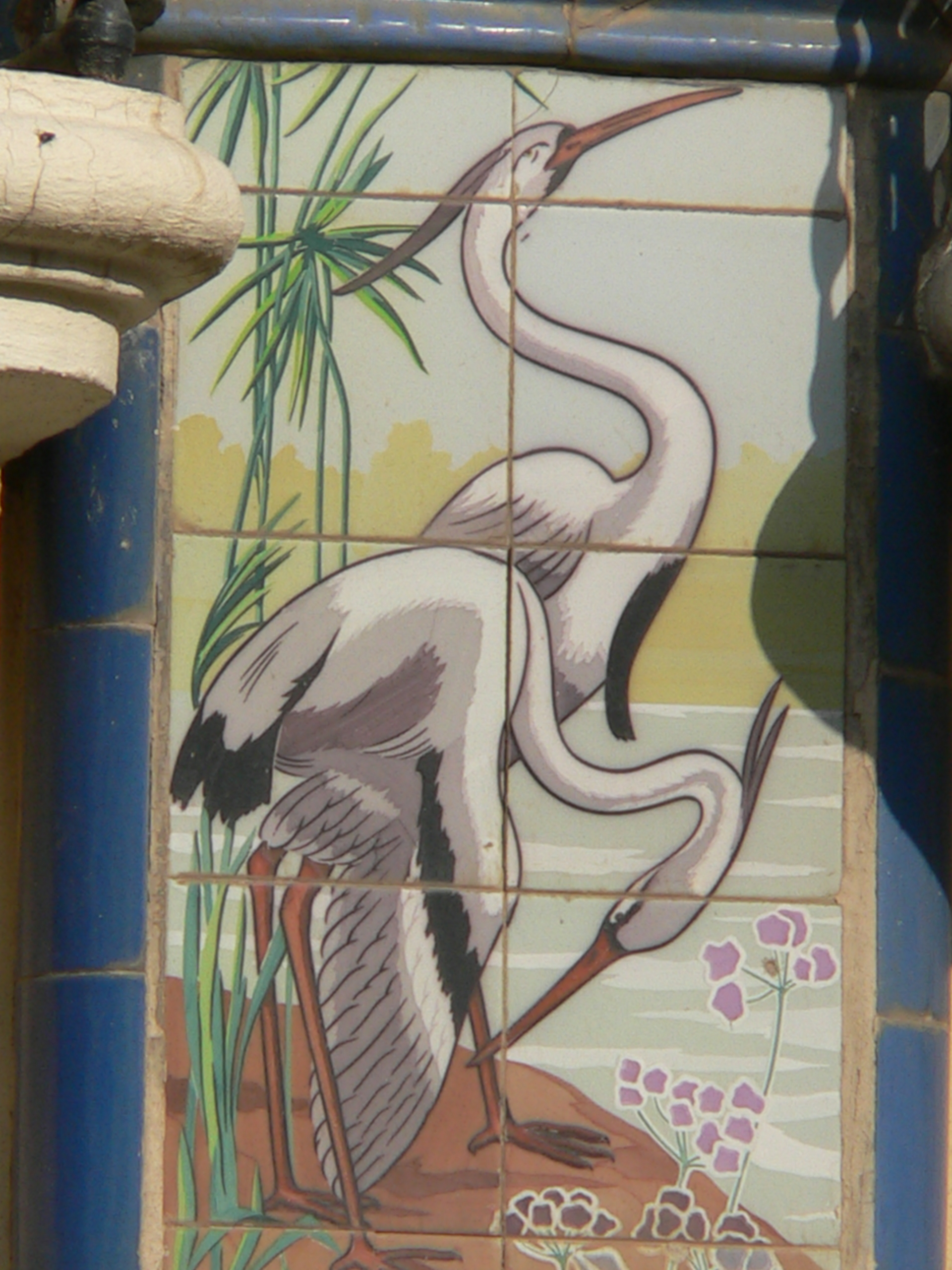 Art Nouveau House Casa de las Cigüeñas, Castellón de la Plana, Spain (detail)